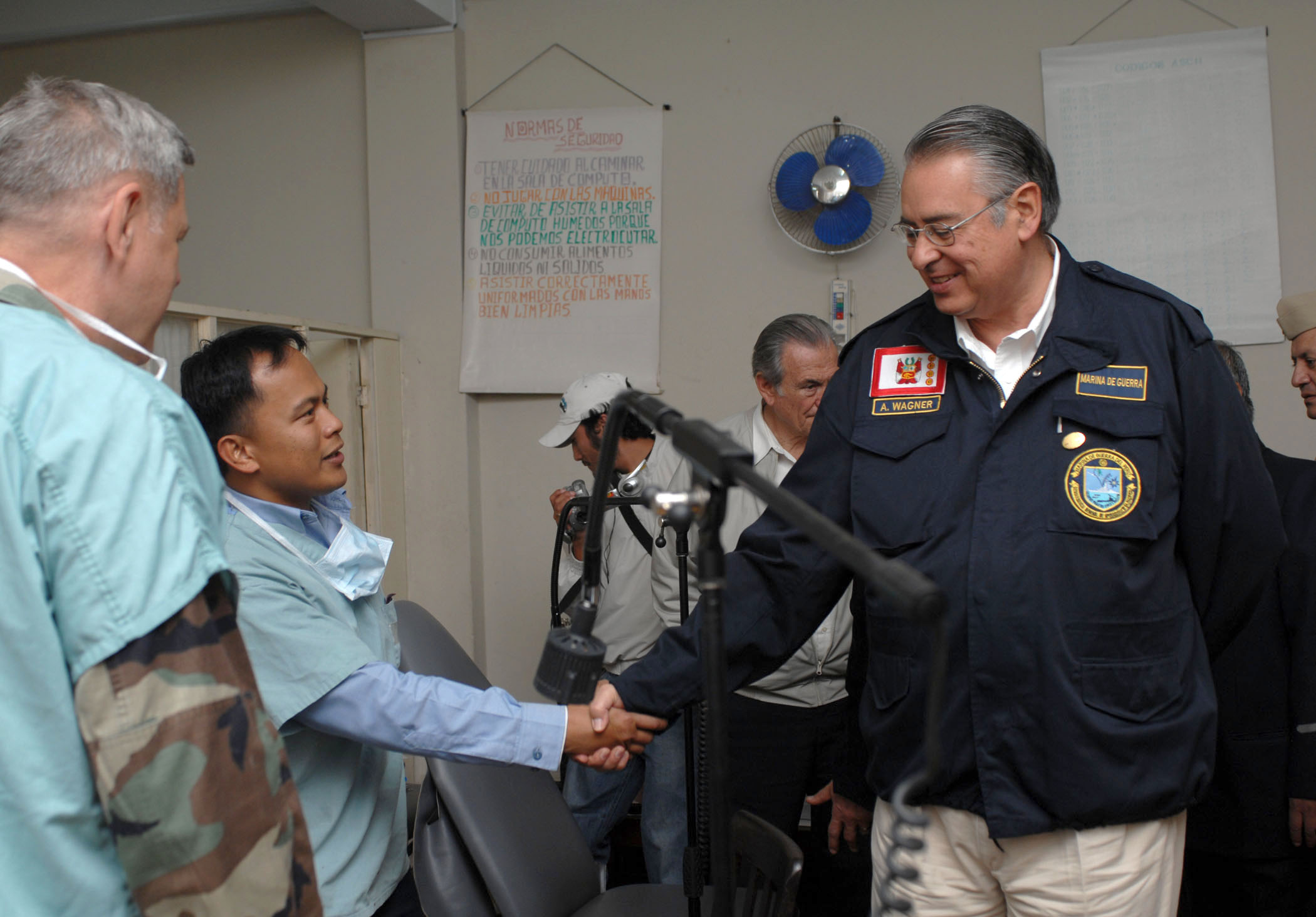 TRUJILLO, Peru (Aug. 9, 2007) - Minister of Defense for Peru, Allen Wagner Tizon, greets Hospital Corpsman 2nd Class Antonio Tingco, attached to hospital ship USNS Comfort (T-AH 20), while on a tour of the Jose F. Sanchez Carrion School where personnel attached to Comfort provided medical care. Comfort is on a four-month humanitarian deployment to Latin America and the Caribbean providing medical treatment to patients in a dozen countries. U.S. Navy photo by Mass Communication Specialist 2nd Class Elizabeth R. Allen (RELEASED)